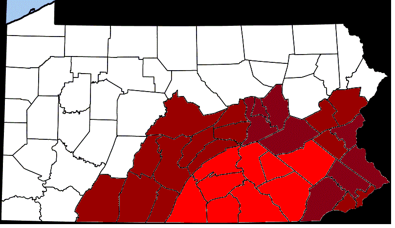 altered version of (Public domain map courtesy of The General Libraries, The University of Texas at Austin, modified to show counties relevant to article. Released under GFDL. See Wikipedia:U.S. county maps.)